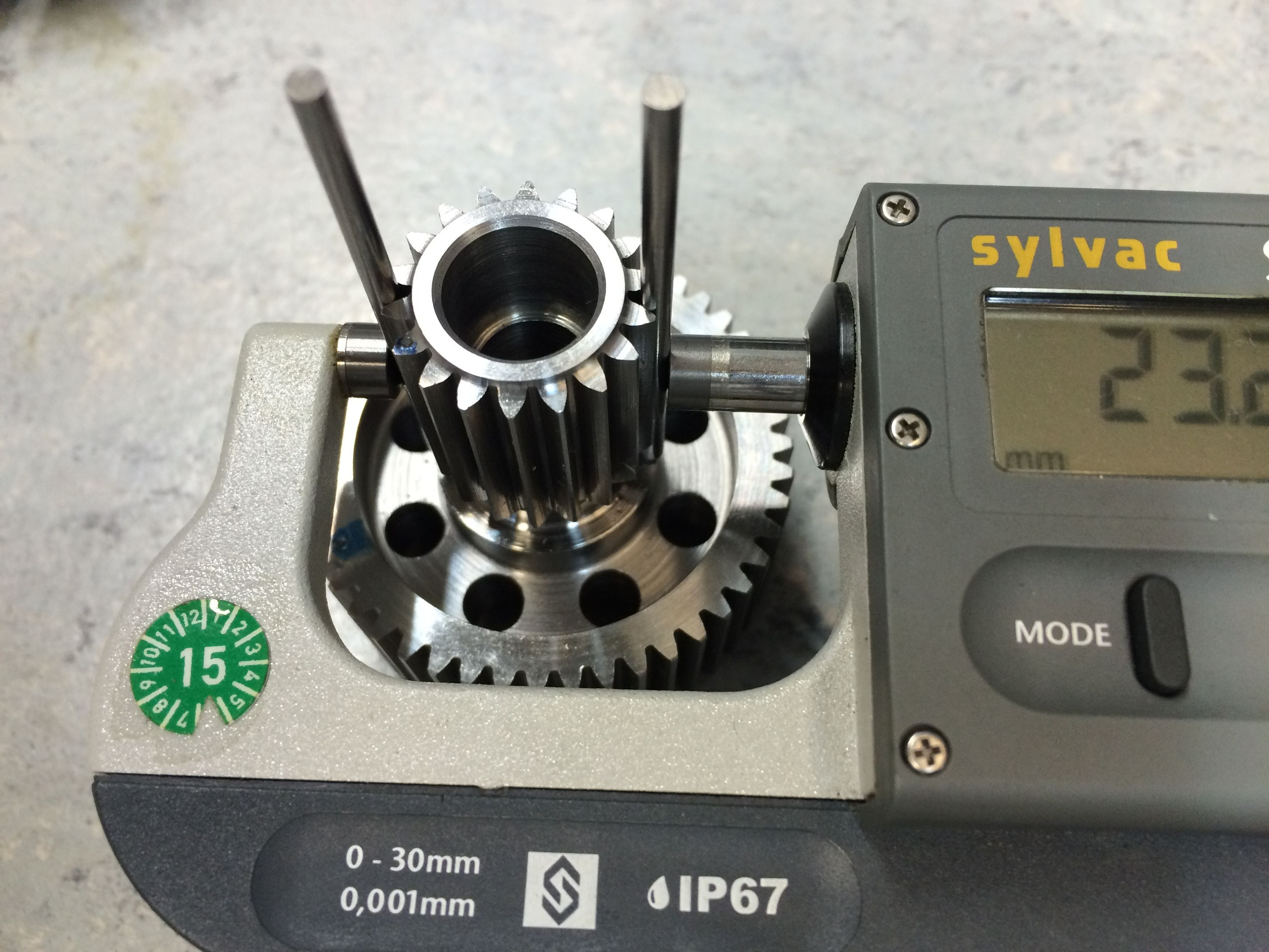 Gear measurement over pins